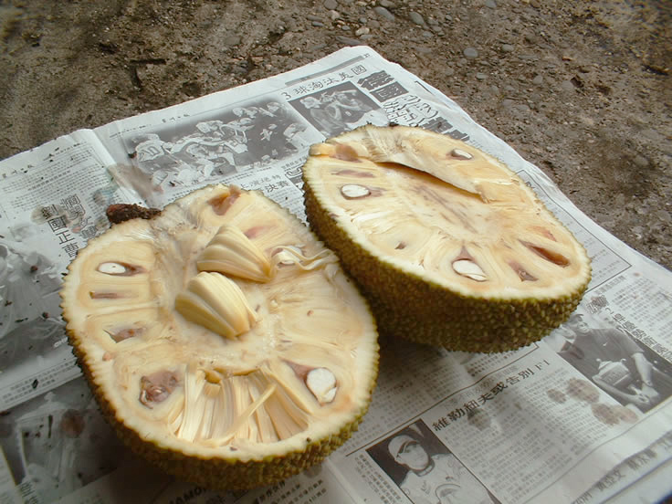 An opened Jack Fruit or Artocarpus heterophyllus